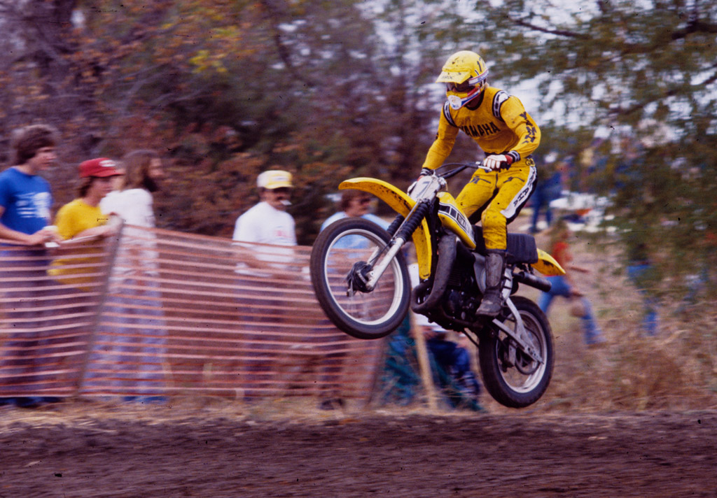 Broc Glover, #17 Yamaha at 1977 Rabbit Run Trans-AMA, Dallas (Plano), Texas. Broc was the AMA 125cc National Champion in 1977, 1978, and 1979, he was the AMA 500cc National Champion in 1981, 1983 and 1985.